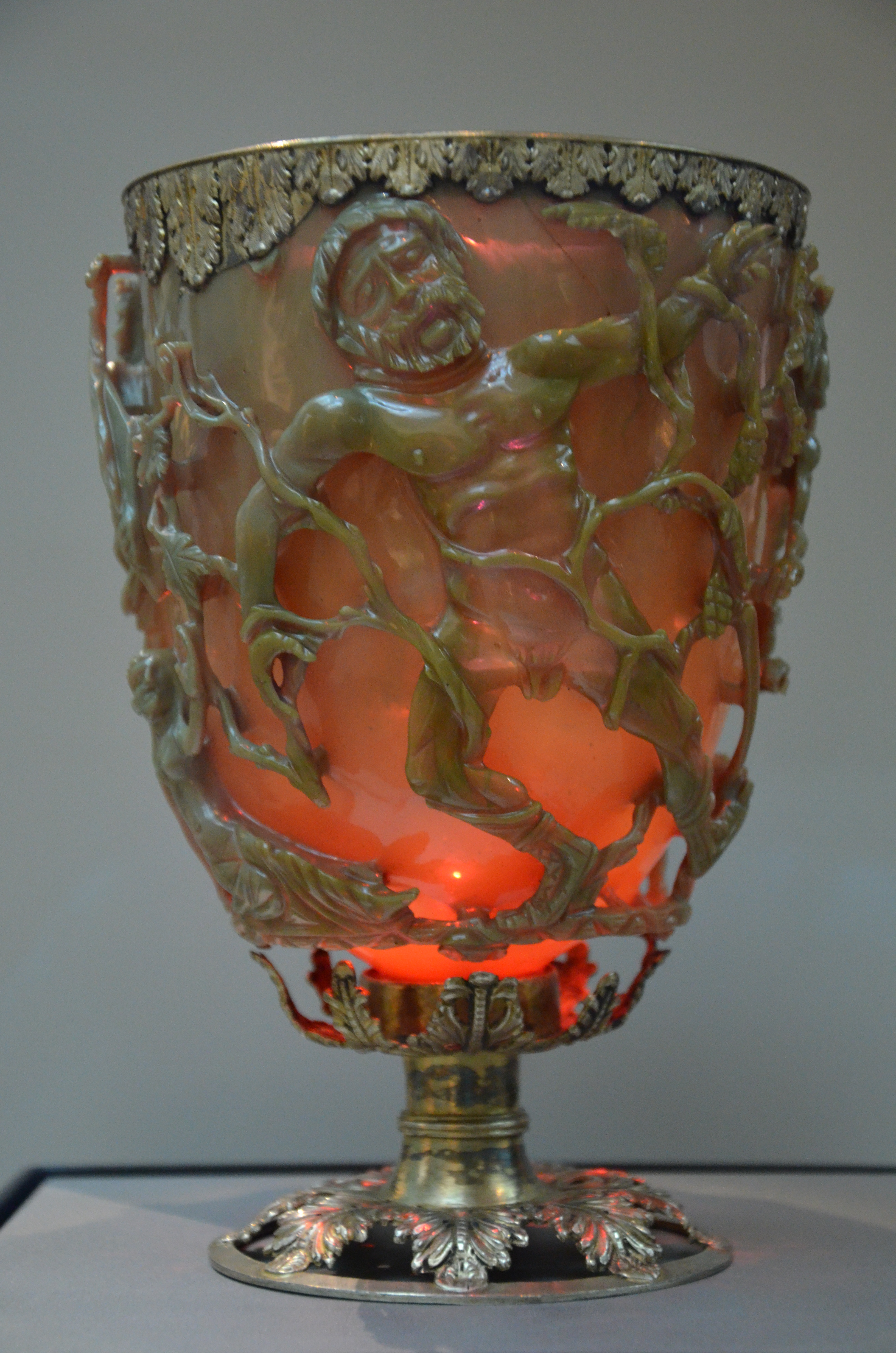 The cup is an example of the diatreta or cage-cup type where the glass was cut away to create figures in high relief attached to the inner surface with small hidden bridges behind the figures. The cup is so named as it depicts the myth of Lycurgus entwined in a vine. British Museum.